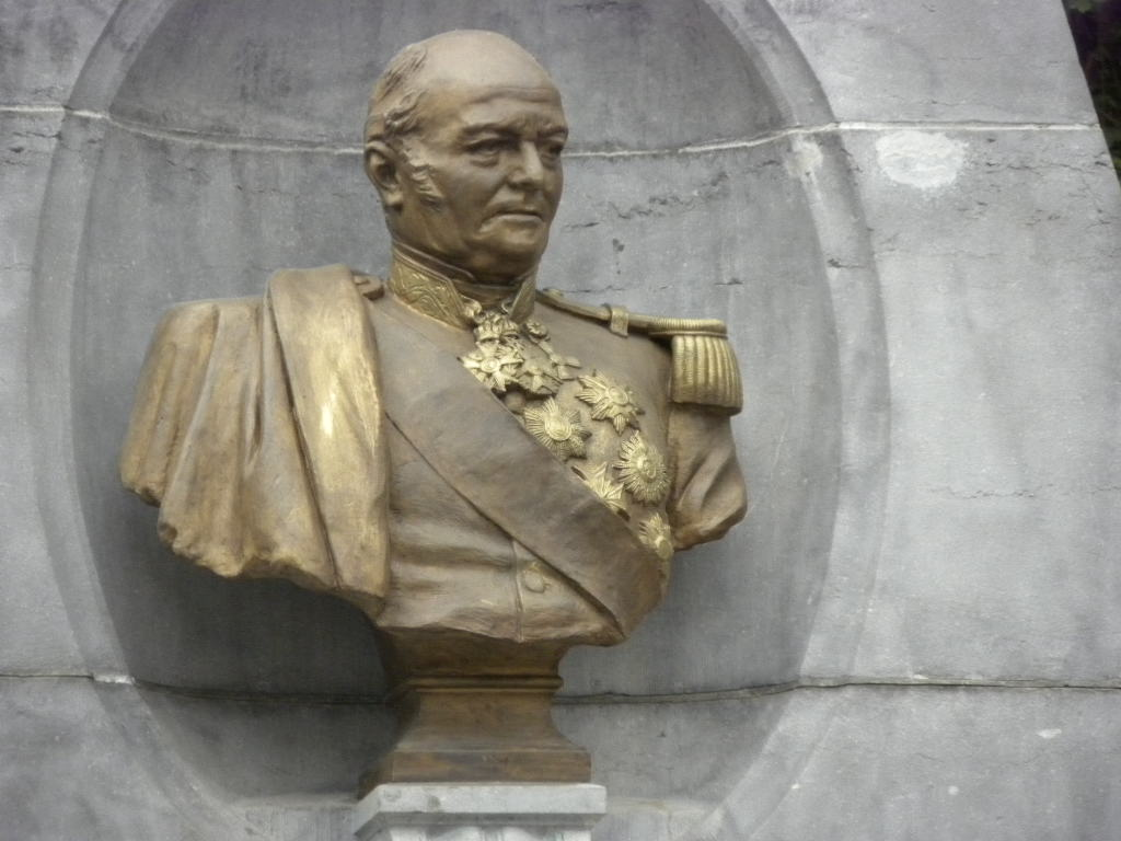 Bronze statue of General Albert Goblet by Jef Lambeaux. located in Court Saint Etienne, Brabant, Belgium.